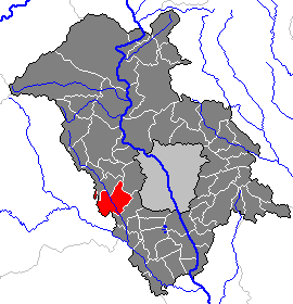 This map shows the area of the Gemeinde (municipality) Hitzendorf in the Bezirk (district) Graz-Umgebung, Styria, Austria.